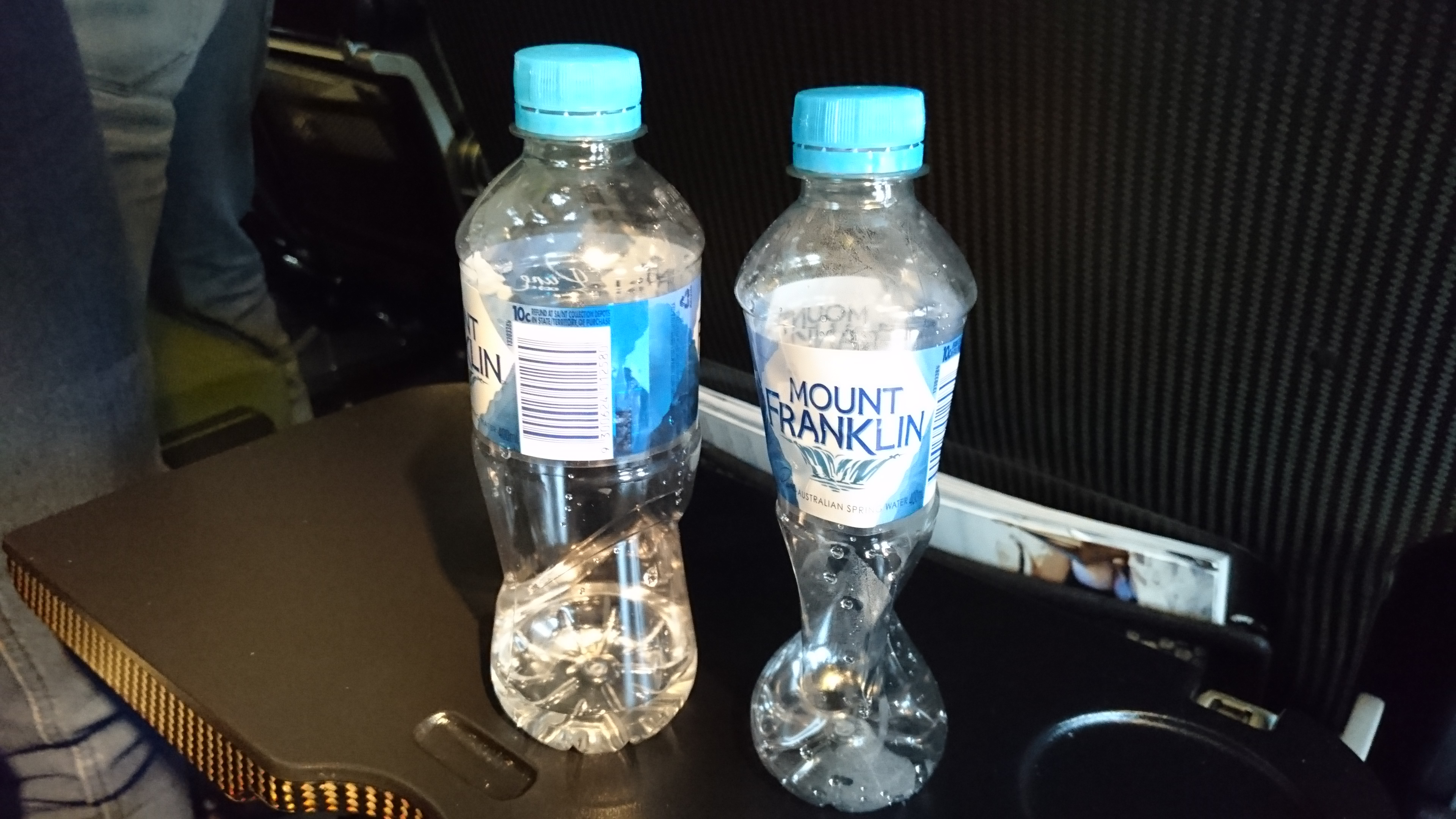 Higher surface pressure crushes the bottle on the right sealed when this Boeing 747-400ER was cruising at 31,000ft.